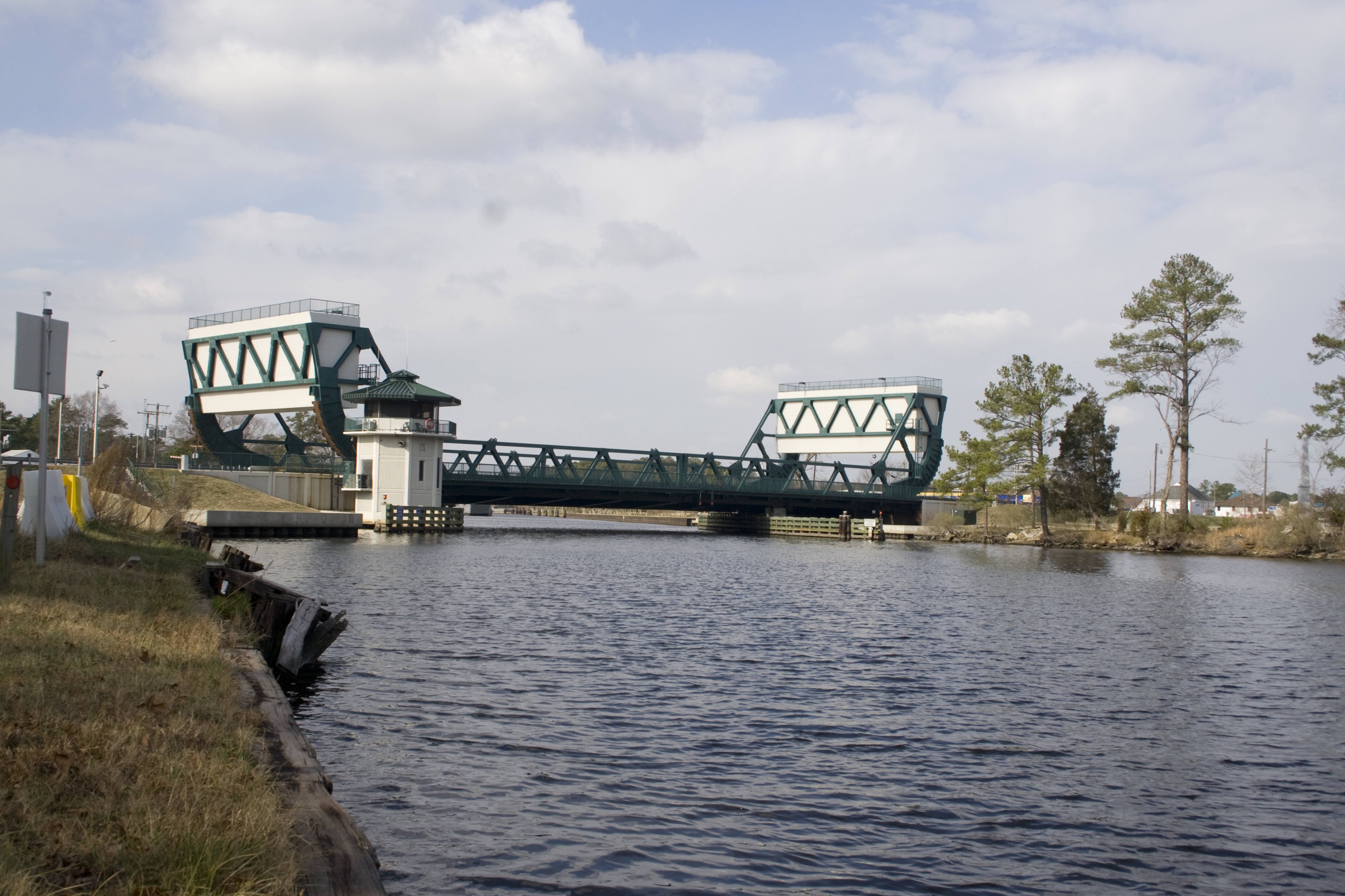 Great Bridge, Bridge, in Chesapeake, Va., was completed in 2004 and crosses the Albemarle and Chesapeake Canal. Built by the U.S. Army Corps of Engineers, it is the first fully hydraulically operated bridge in Virginia.